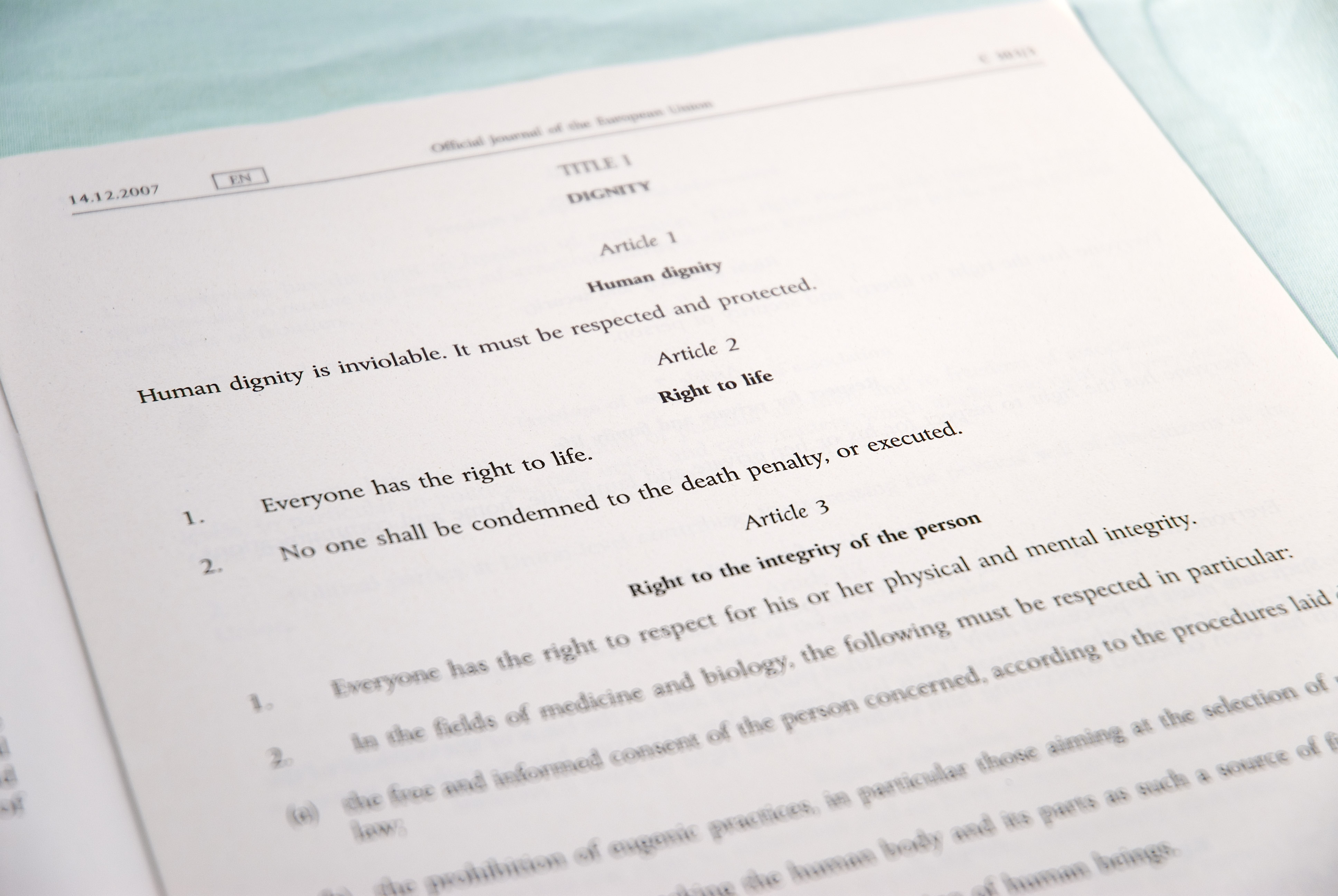 Article 2 of the Charter of Fundamental Rights of the European Union